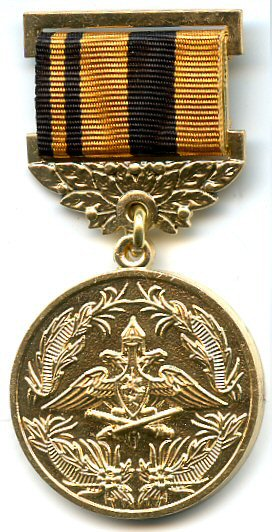 Ministry of Defense of the Russian Federation, Commemorative Decoration 250 Years of the General Staff